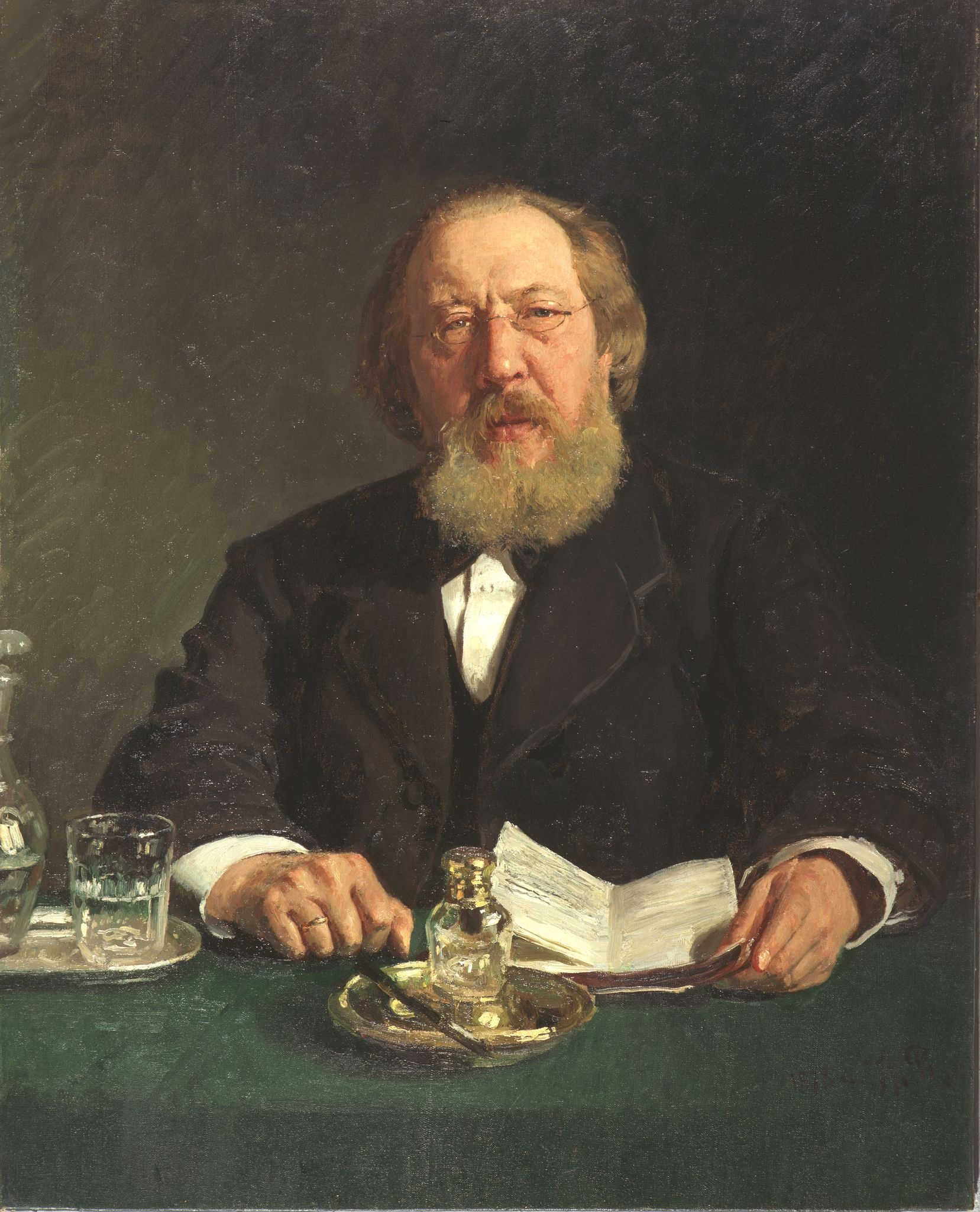 Portrait of poet and slavophile Ivan Sergeyevich Aksakov